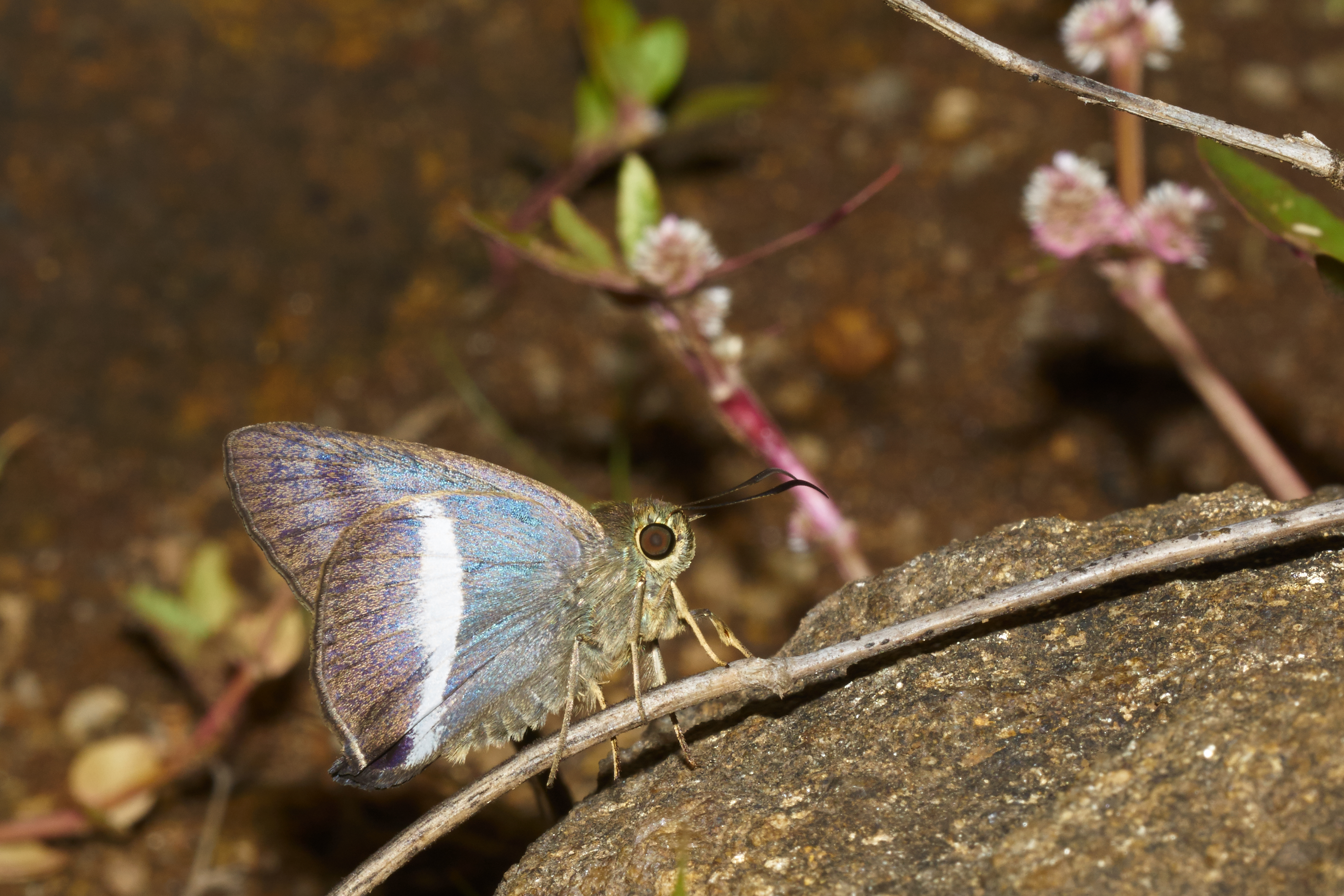 Hasora taminatus, White-banded Awl, is a butterfly belongs to Hesperiidae family, found Asia.